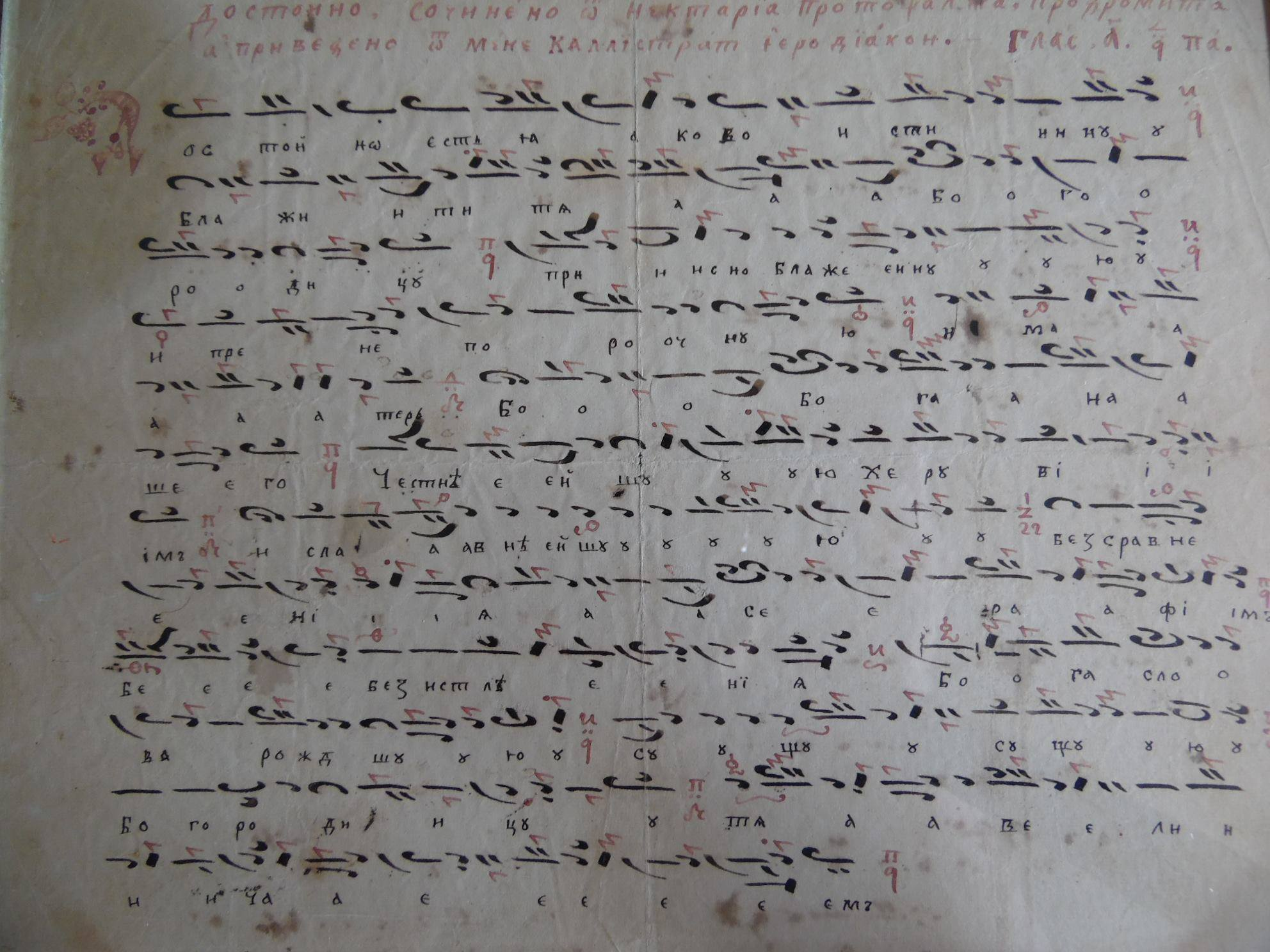 Ракопис на Архимандрит Калистрат Зографски што се чува во домашната библиотека на семејството Санџакоски